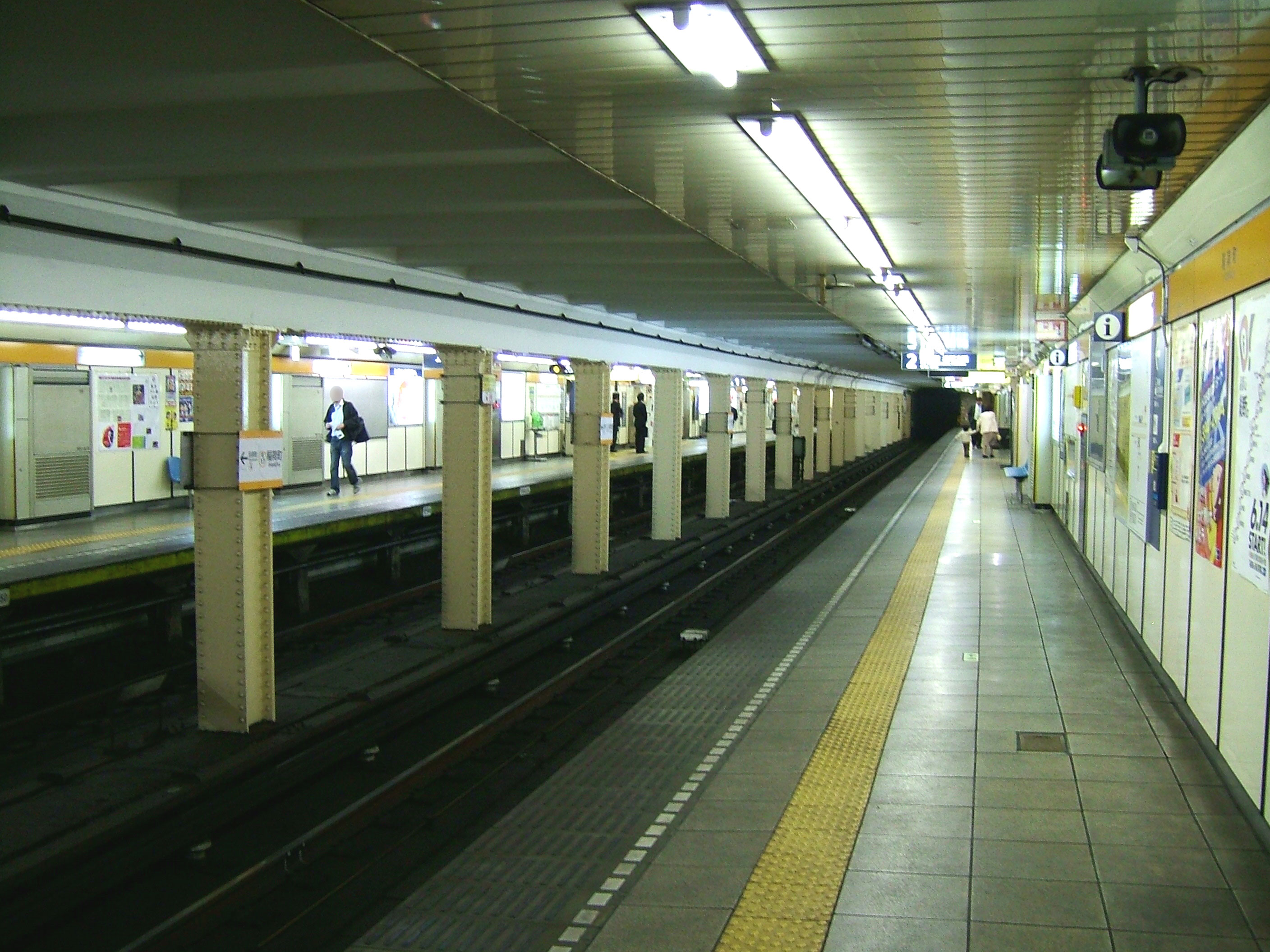 Inarichō Station platform (Tokyo Metro Ginza Line)